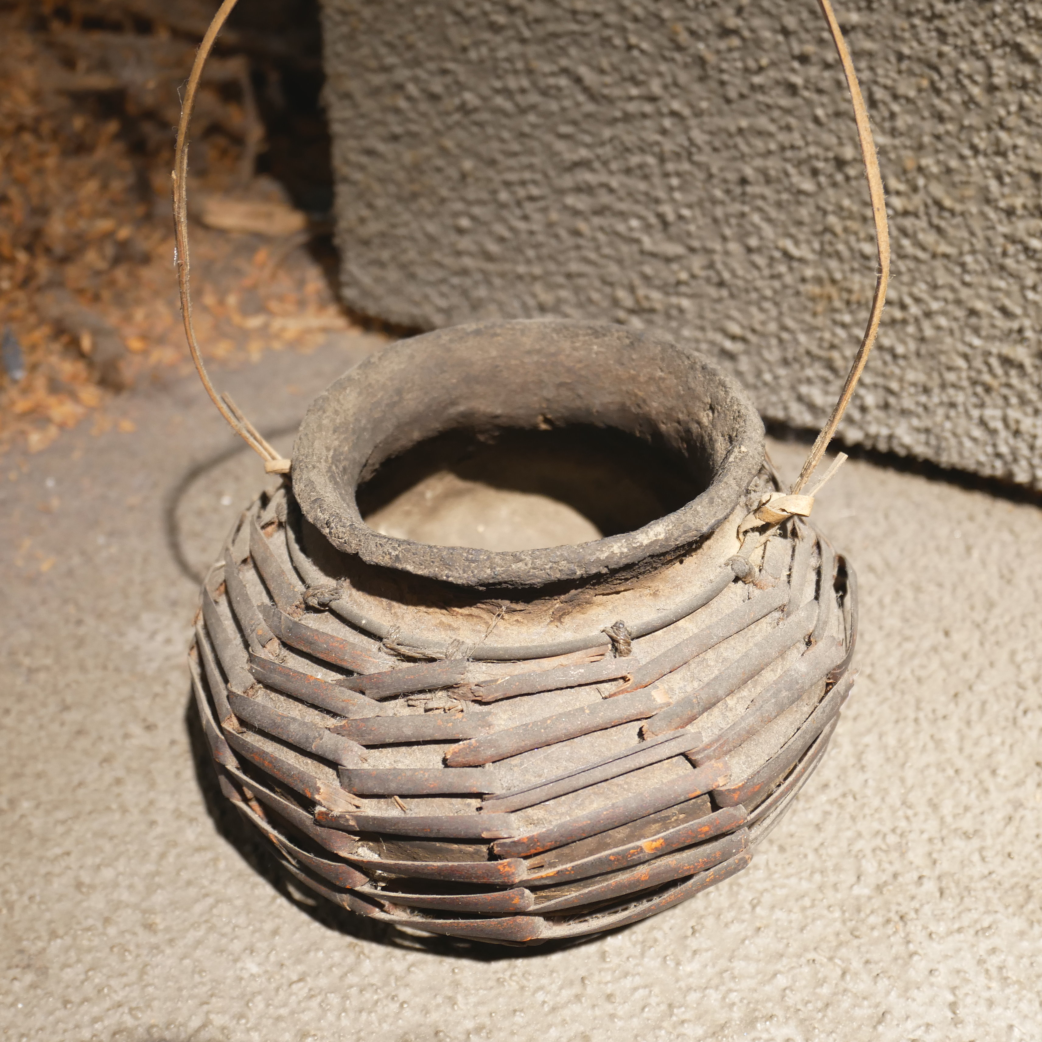 達悟族編藤小提罐，新北市鶯歌區南靖里